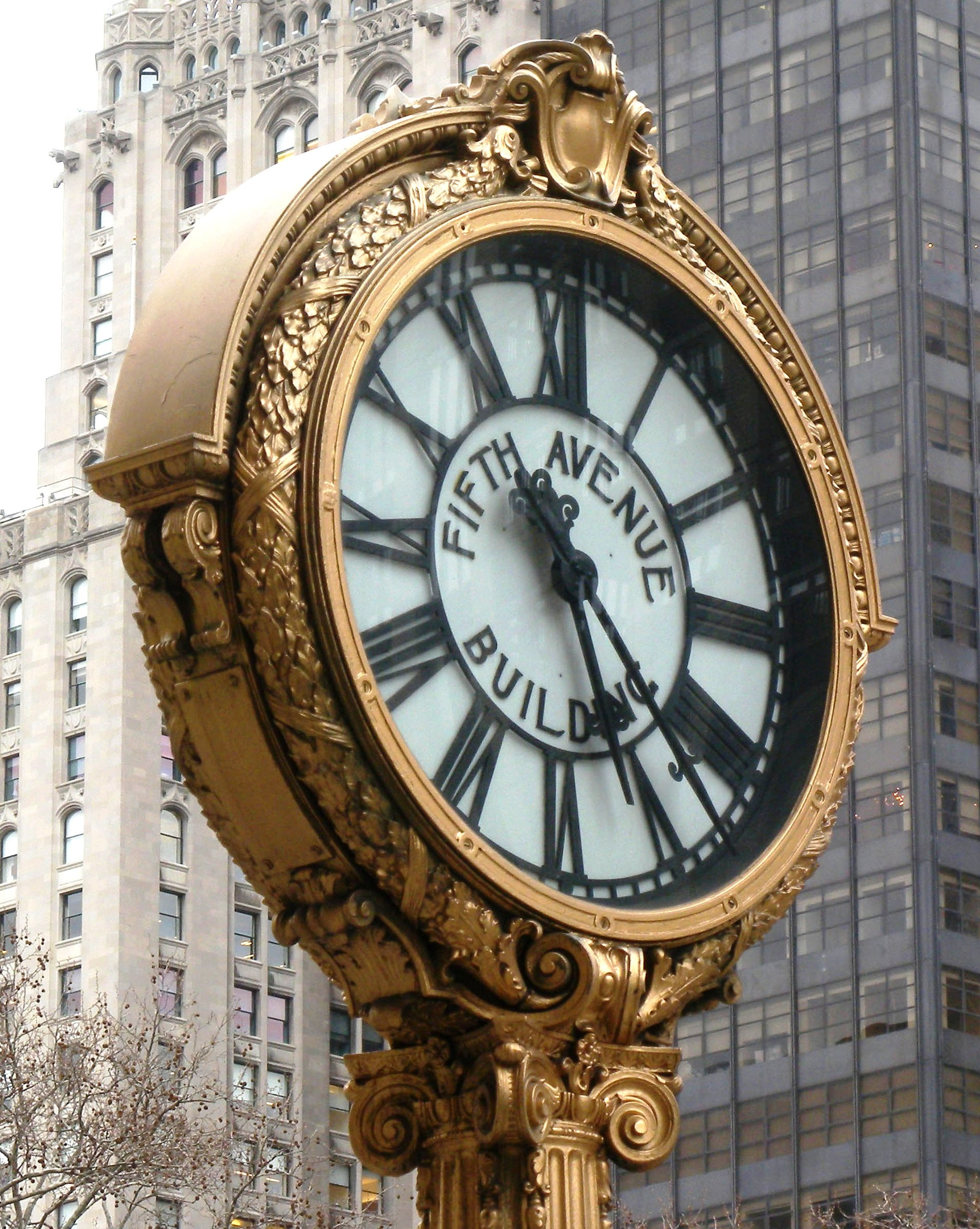 Looking northeast at sidewalk clock at 200 Fifth Avenue on a cloudy afternoon. NYCLPC designation 1981; Guidebook map 8. See also File:Sidewalk-clock-200-5th-avenue.JPG.